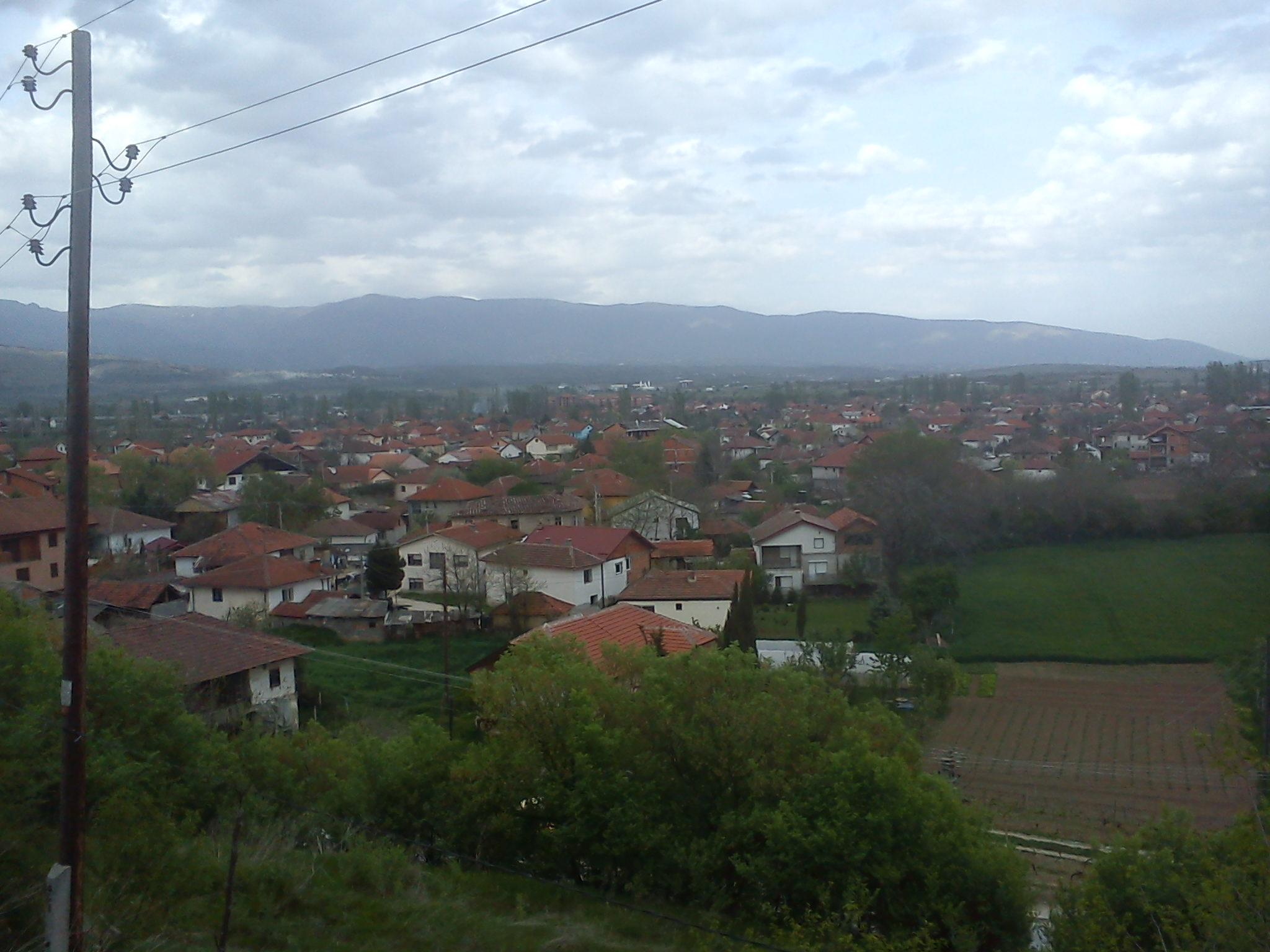 Volkovo, Macedonia